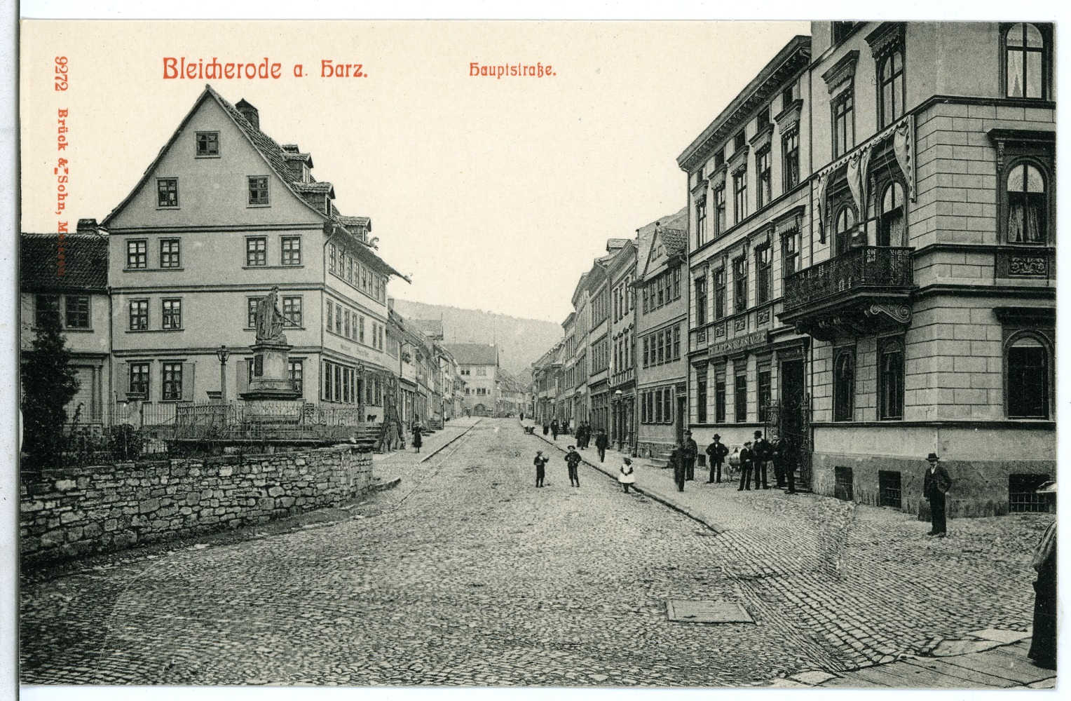 This postcard is from publisher Brück & Sohn in Meißen ( This postcard has a unique number 09272 and is available in a higher resolution at the publisher. This images was uploaded in a cooperation project between Wikipedians and the publisher.